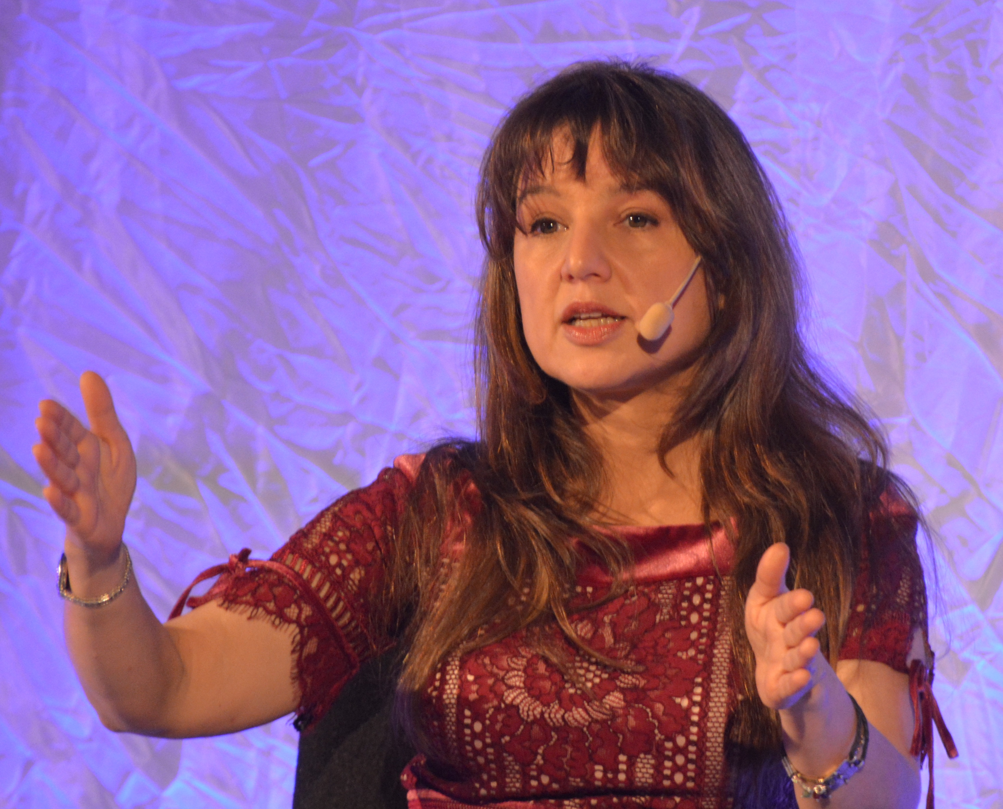 Zeynek Tufekci